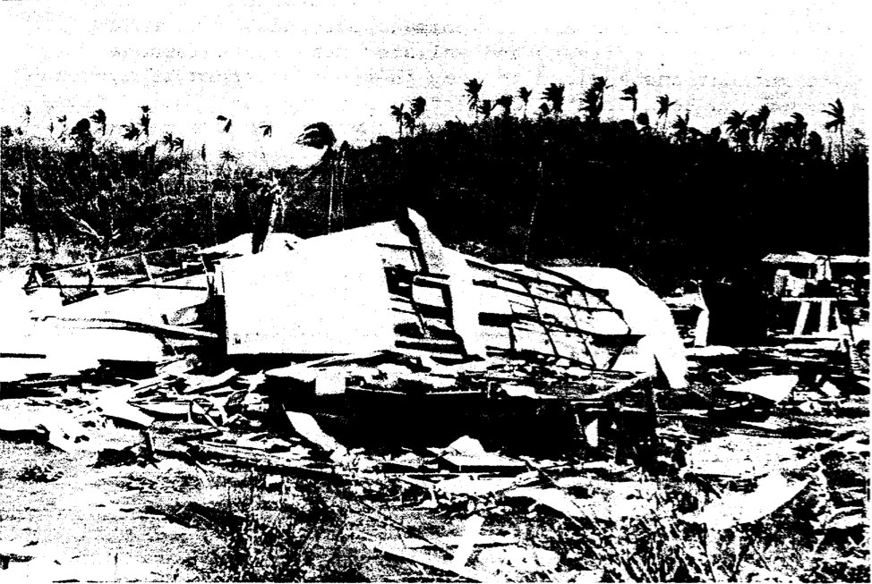 Damage to a building caused by Typhoon Karen in November 1962